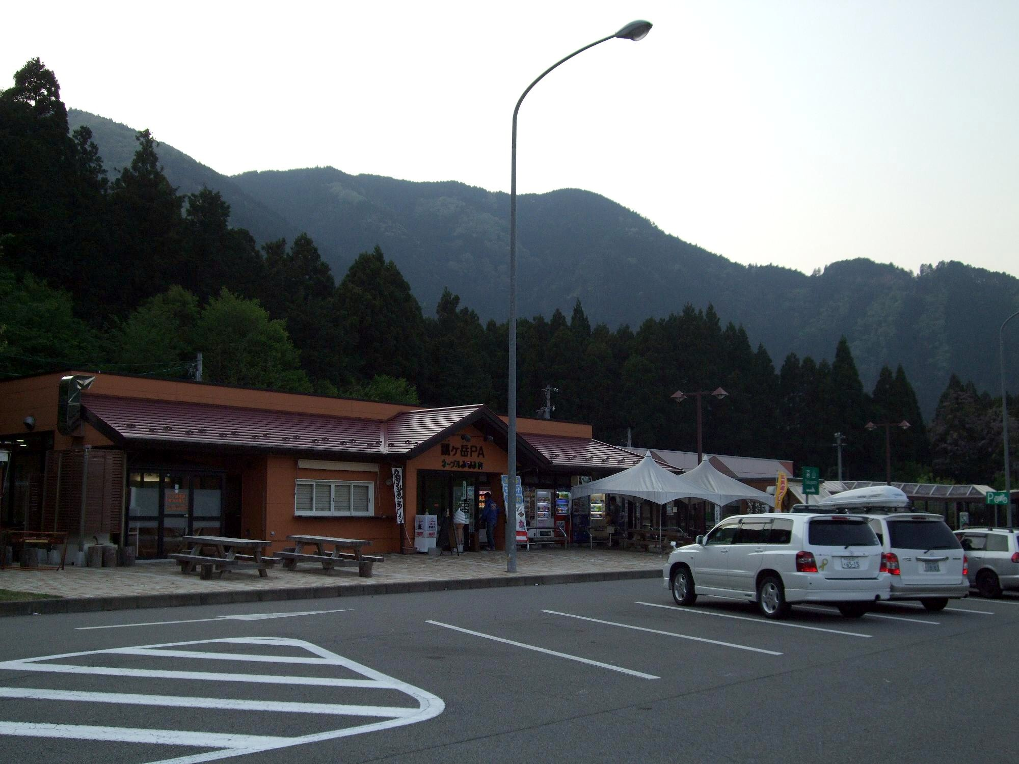 Fukubegatake Parking Area on the Tokai-Hokuriku Expressway